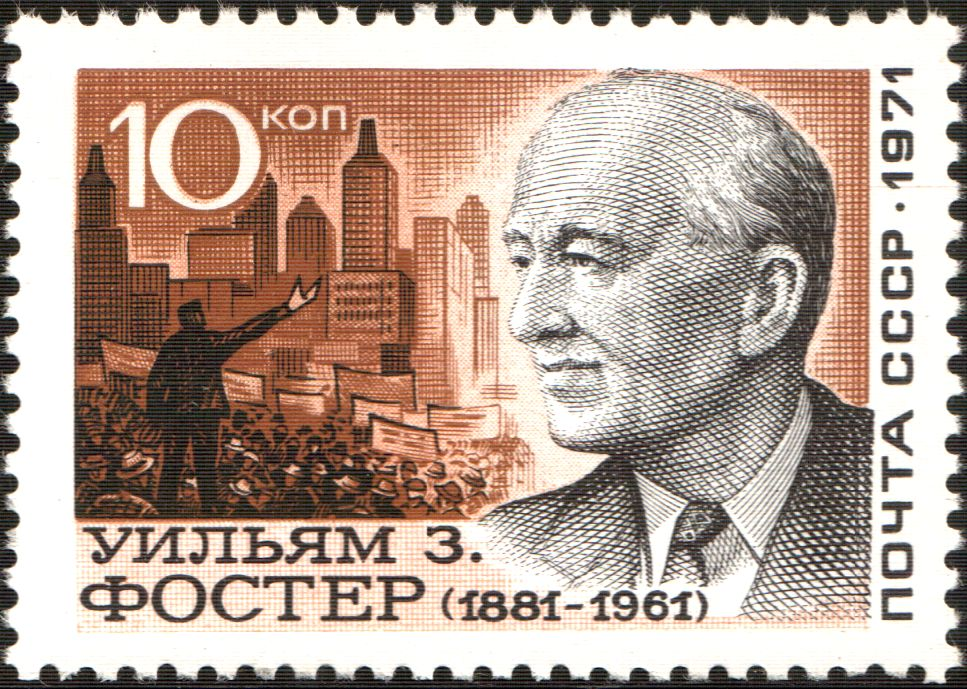 USSR stamp: William Z. Foster. Series: 90th Anniversary of William Z. Foster (1881-1961), a radical American labor organizer and Marxist politician